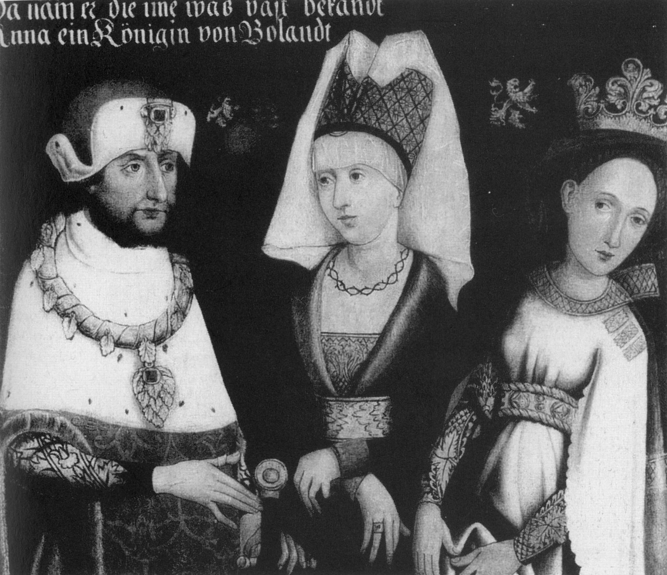 Louis II, Duke of Bavaria (1229-1294), Count Palatine of the Rhine, with his first two wifes Maria of Brabant (1226-1256) and Anna of Glogau (c-1250-1271)